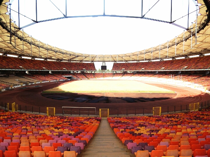 Shows how Nigeria takes football seriously This is an image of "African people at work" from Nigeria